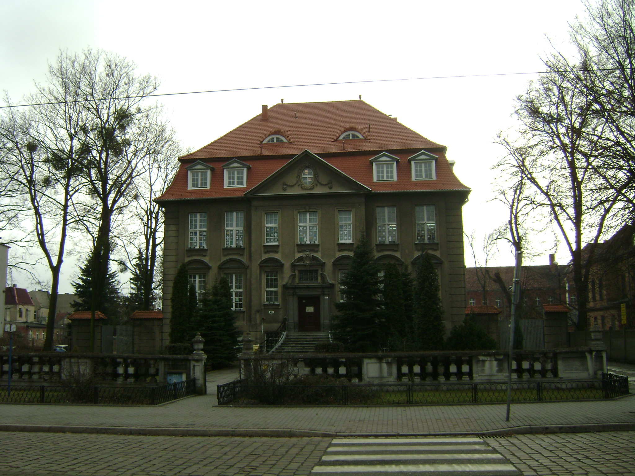 City Library in Grudziądz